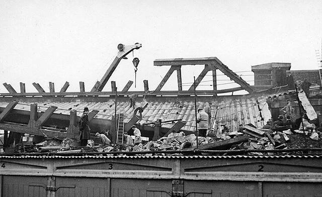 St Johns, Lewisham: rail-over-rail bridge being removed View SW from Brookmill Road, 3½ days after the dreadful collision at 18.20 on 4 December 1957 in dense fog, when the 16.56 Cannon Street to Ramsgate express (steam-hauled, by Light Pacific No. 34066 'Spitfire') had collided with the preceding electric 17.18 Charing Cross to Hayes with such force that the massive bridge girder carrying the Nunhead - Lewisham line was brought down onto the leading coaches of the express. In this picture and TQ3776 : St Johns, Lewisham: rail-over-rail bridge being removed the damaged bridge was being cut up to clear the lines and allow the removal of the parts of the traain caught under the collapsed bridge. For details, see 'St Johns, Lewisham - 50 years on: restoring the traffic', by Peter Tatlow: Oakwood Press 2007 (ISBN 978 085361 669 6), where the author points out that the temporary bridge that replaced the one in the photograph has continued in service, with some modifications, until at least 2007!